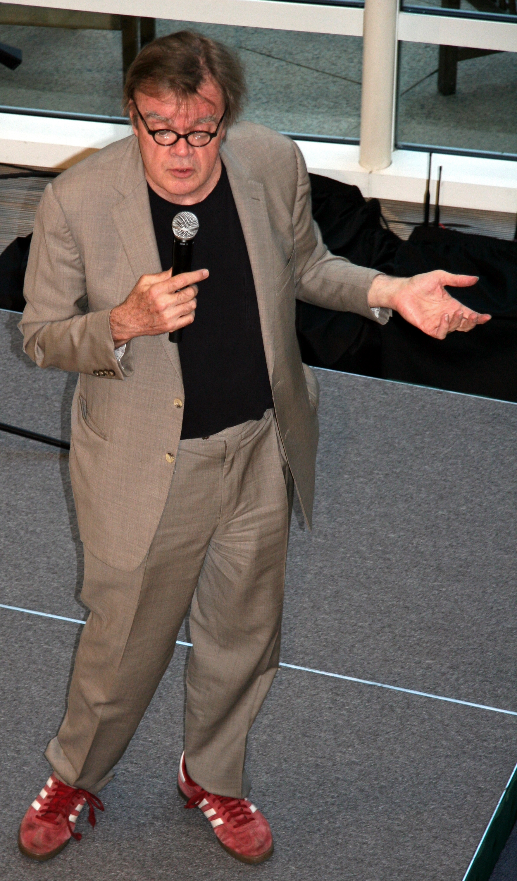 American humorist and radio personality Garrison Keillor wearing red shoes